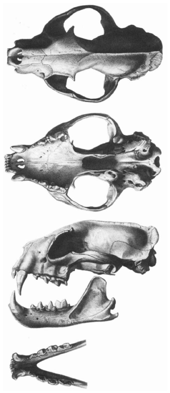 Dorsal, ventral, and lateral views of the cranium, and lateral and dorsal views of the mandible of an adult Cryptoprocta ferox (total length of skull is 140 mm).